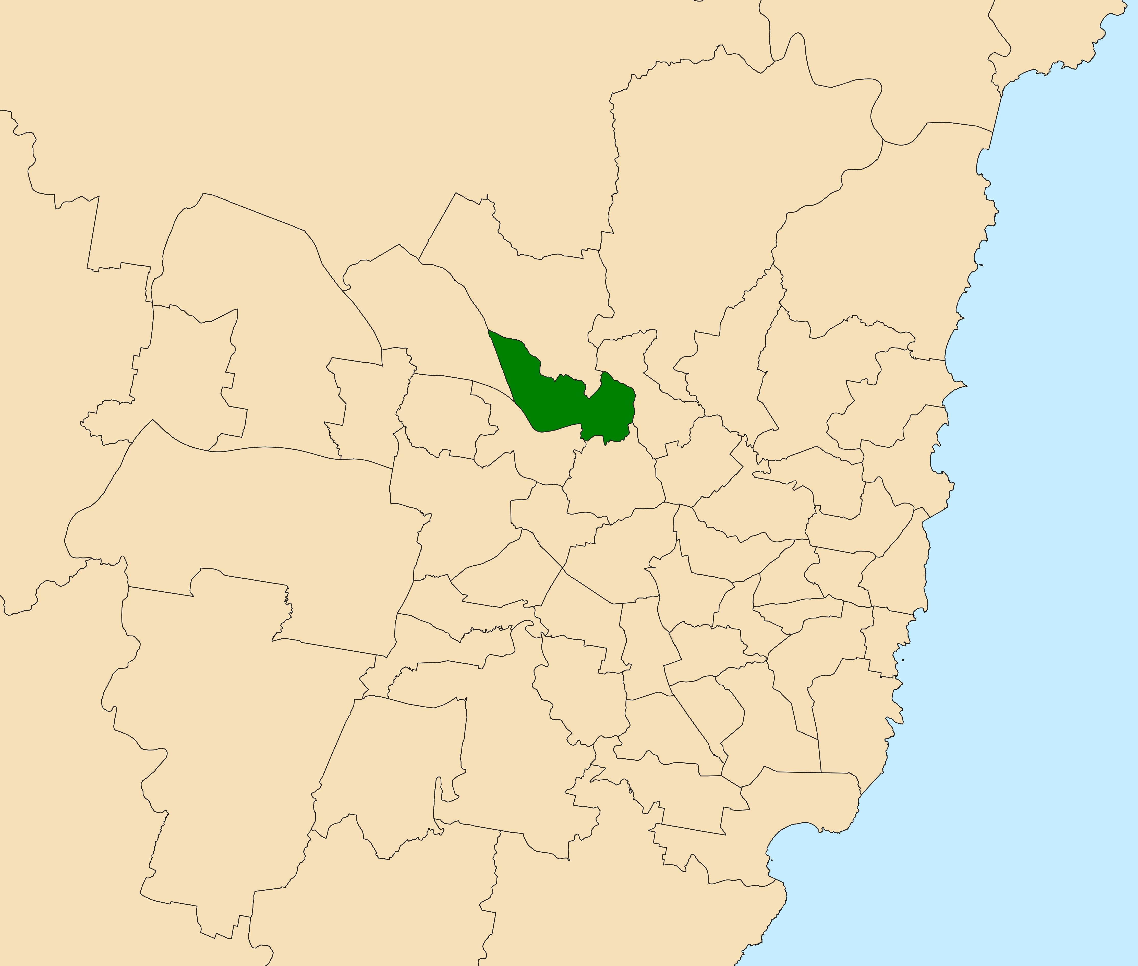 Location of the state electoral district of Baulkham Hills (dark green) in the metropolitan Sydney area as of the 2019 New South Wales state election. Incorporates or developed using Administrative Boundaries ©PSMA Australia Limited licensed by the Commonwealth of Australia under Creative Commons Attribution 4.0 International licence (CC BY 4.0).